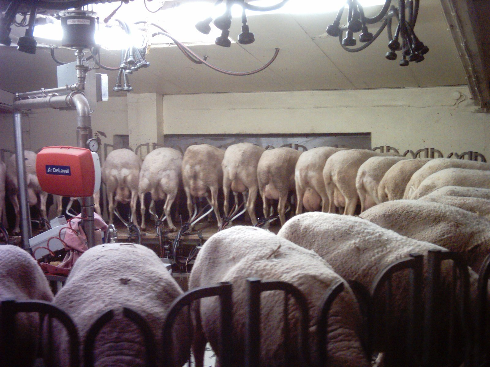 Lacaune dairy sheep in rotary parlour, Aveyron, France private photograph by Seb Schäfer, 2006